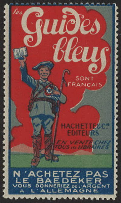 Advertising stamp of France for "Guides bleus" (WW I)